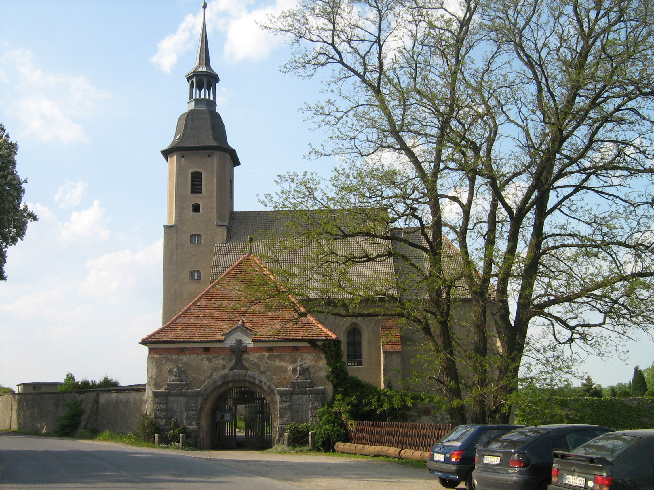 The Church of Diehsa